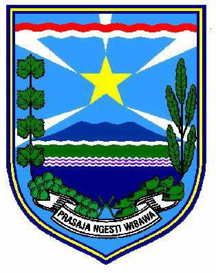 Coat of arms of Probolinggo Regency, East Java